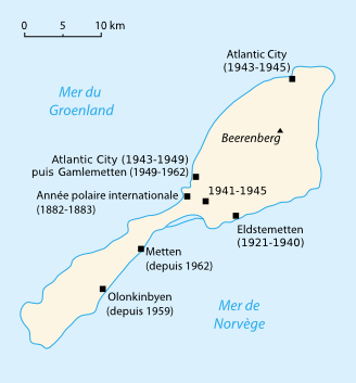 Jan Mayen Island map in french showing the stations, Norway